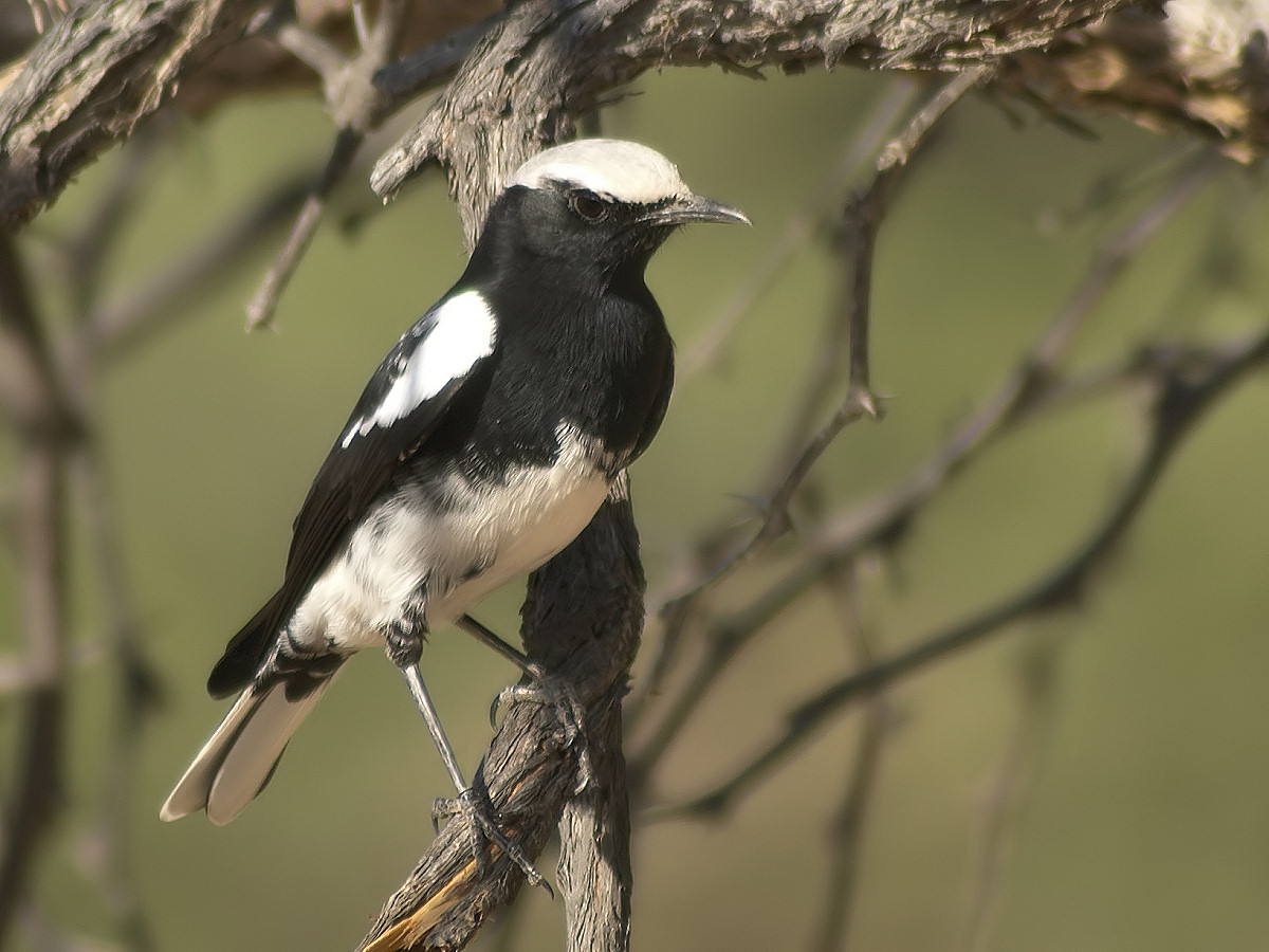 A male Mountain Wheatear just north of Welwitschia Plains, Namibia